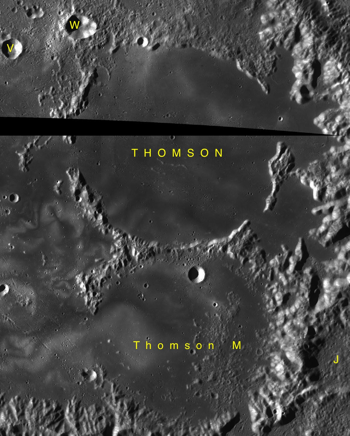 Parts of the charts LAC-103, LAC-119 used for the presentation.